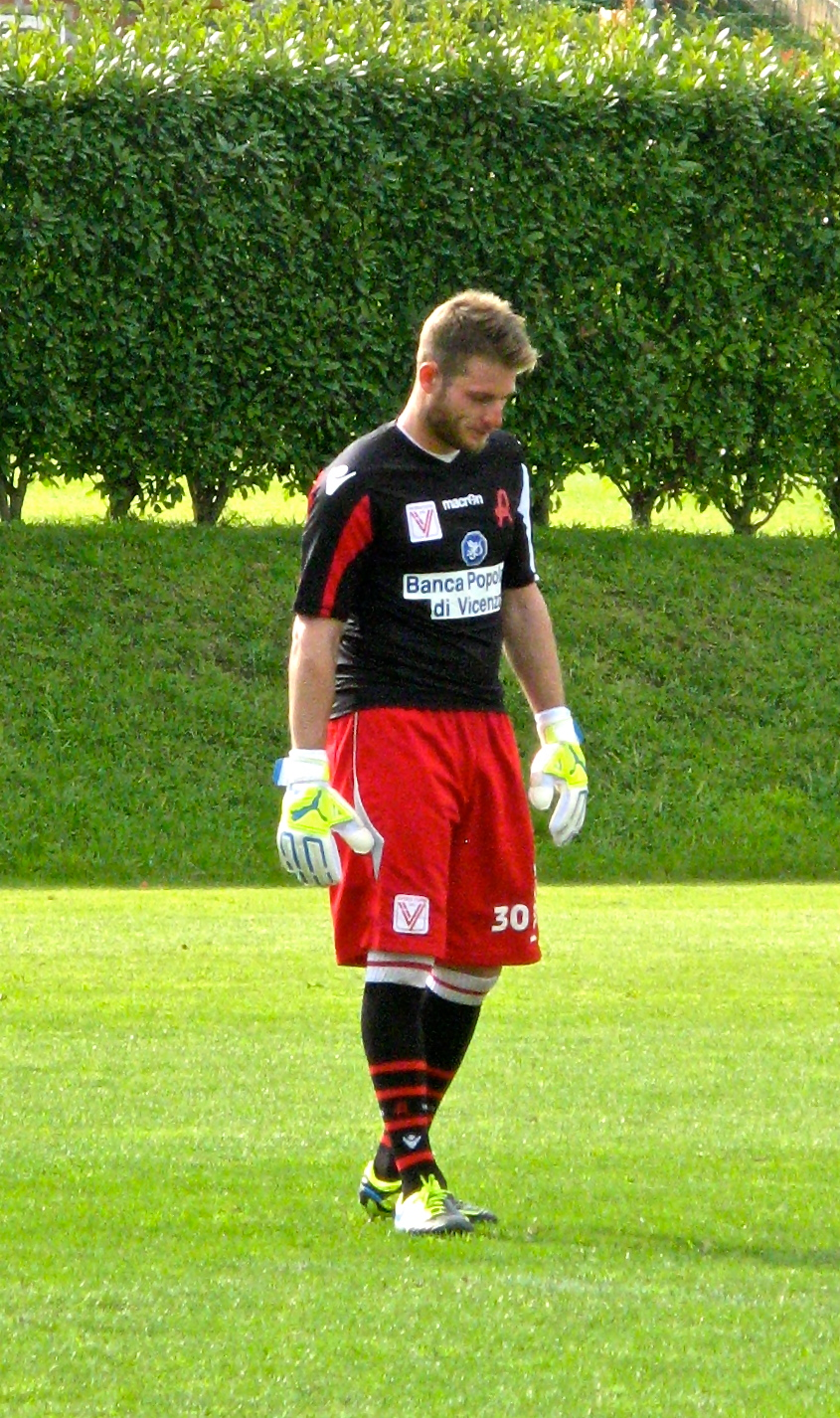 Nicola Ravaglia, goalkeeper, training with Vicenza.